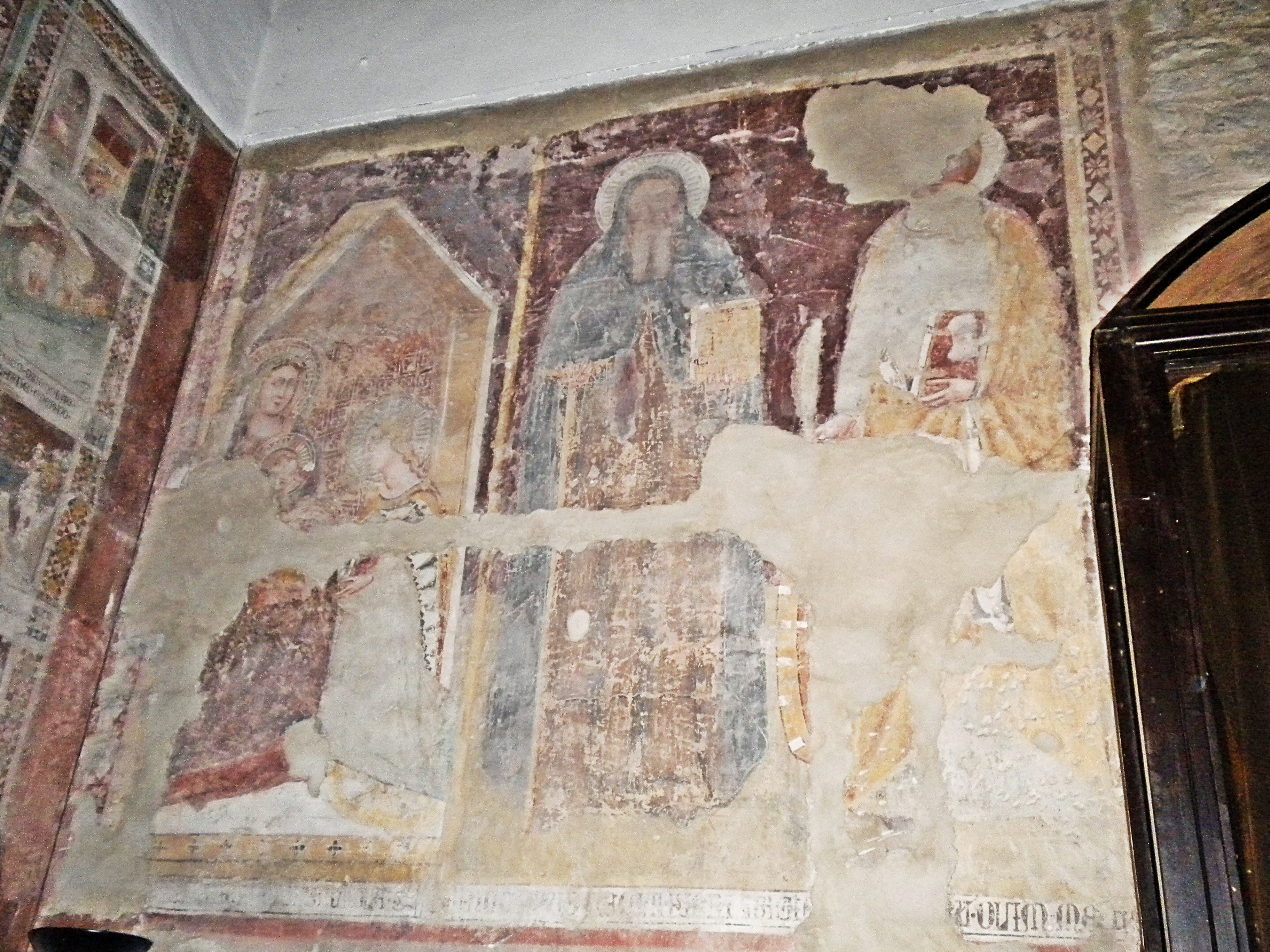 fresco at the exit(madonna with child and saints)